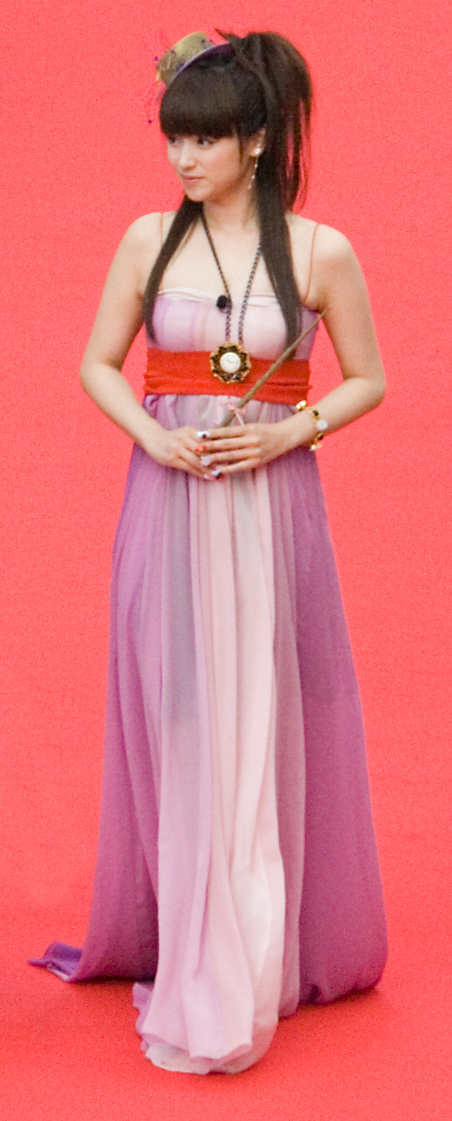 Kyoko Fukada (ja: 深田 恭子 ) on the red carpet at the Tokyo 2007 Harry Potter premier.